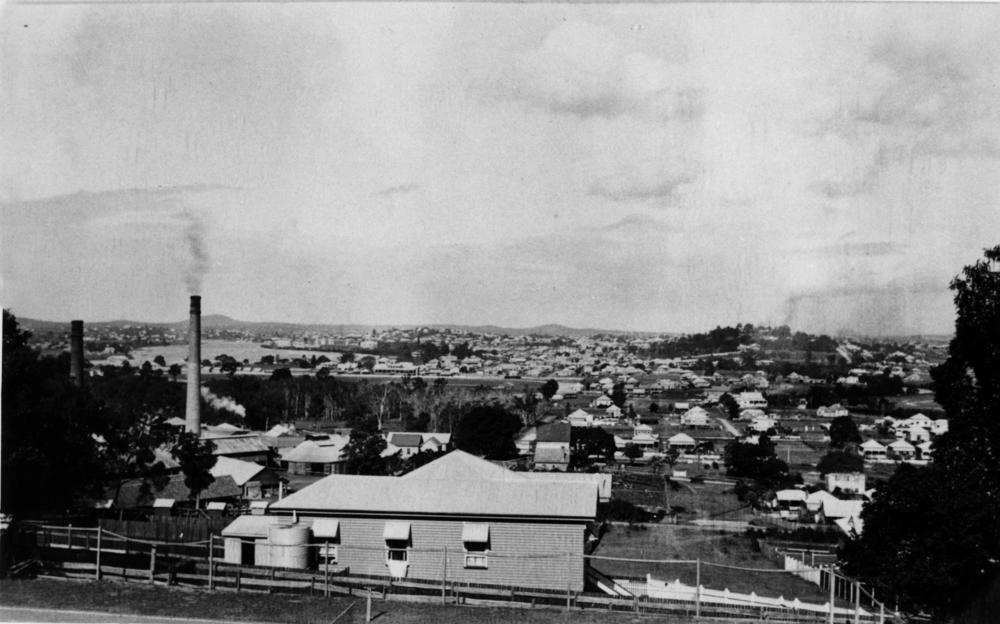 Panorama from Albion towards Bowen Hills, ca. 1915 Campbell's Pottery is on the left in the photograph.